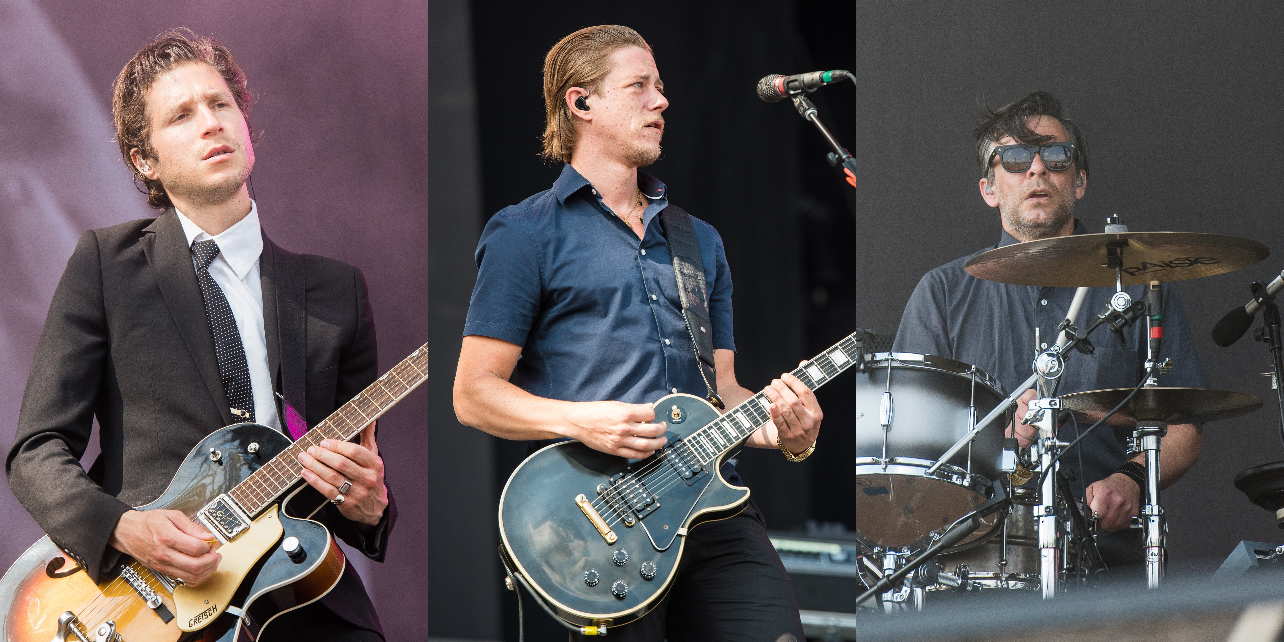 Interpol band members (L-R) Daniel Kessler, Paul Banks, and Sam Fogarino.